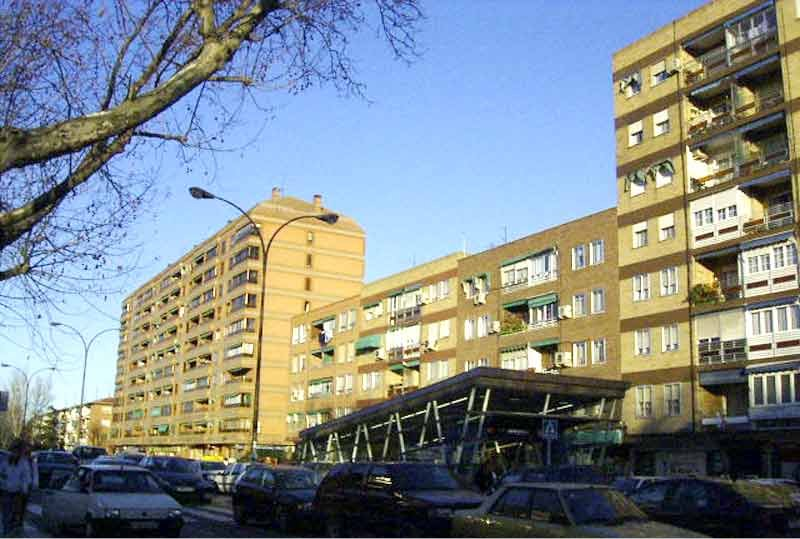 Avenue of Spain, Getafe, (Madrid), Spain Author: Miguel303xm Date: December 1st, 2005 Place: Avenue of Spain, Getafe, Madrid, Spain